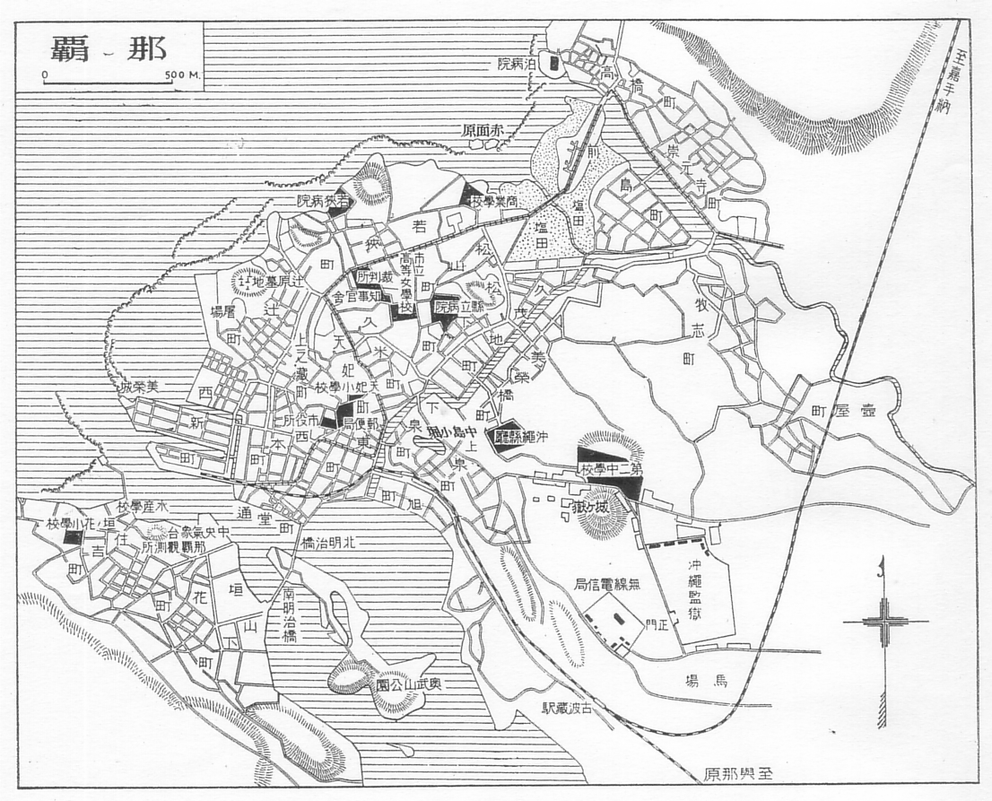 Naha map circa 1930